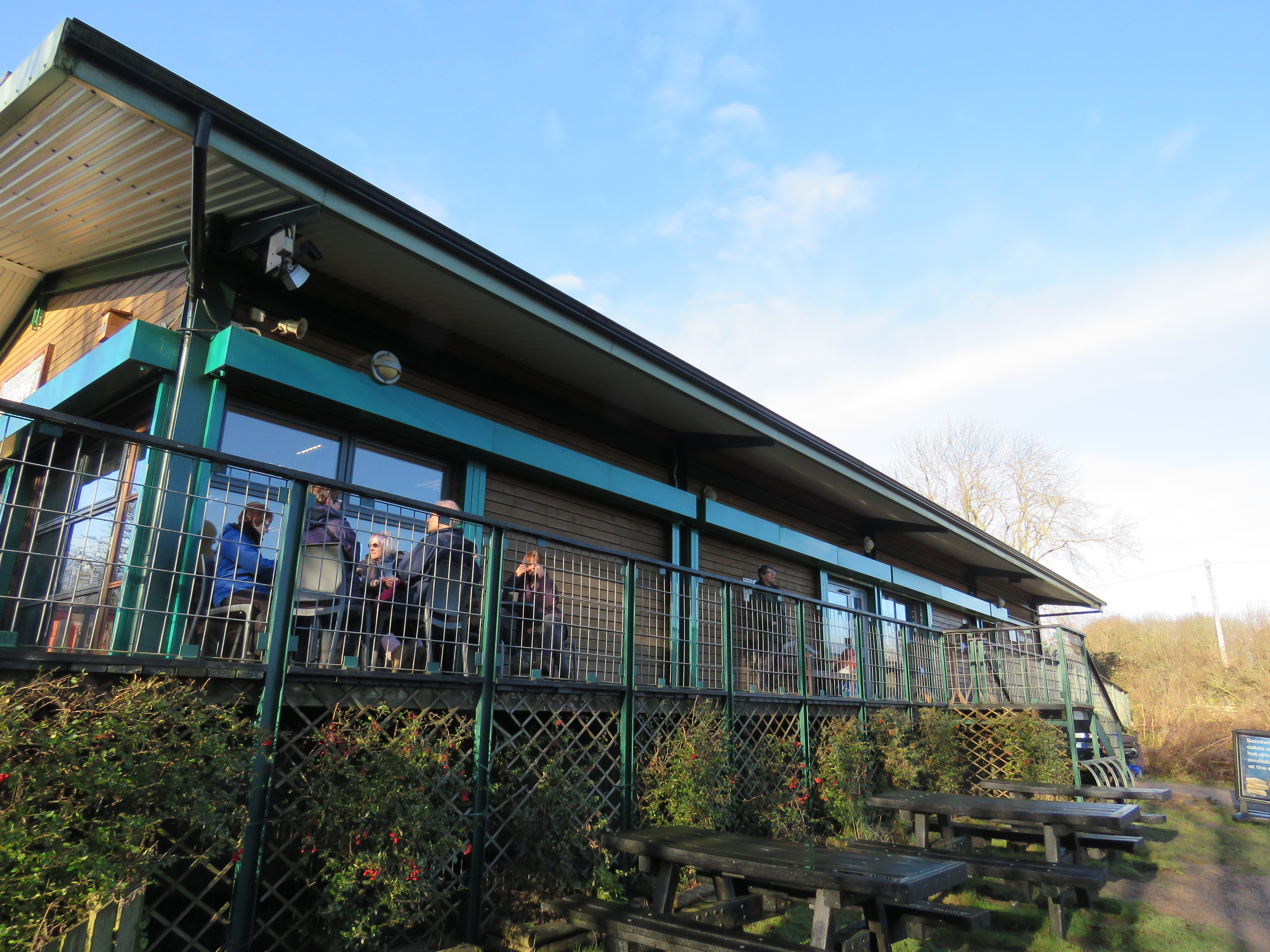 Fairburn Ings RSPB Reserve Visitor Centre, Yorkshire